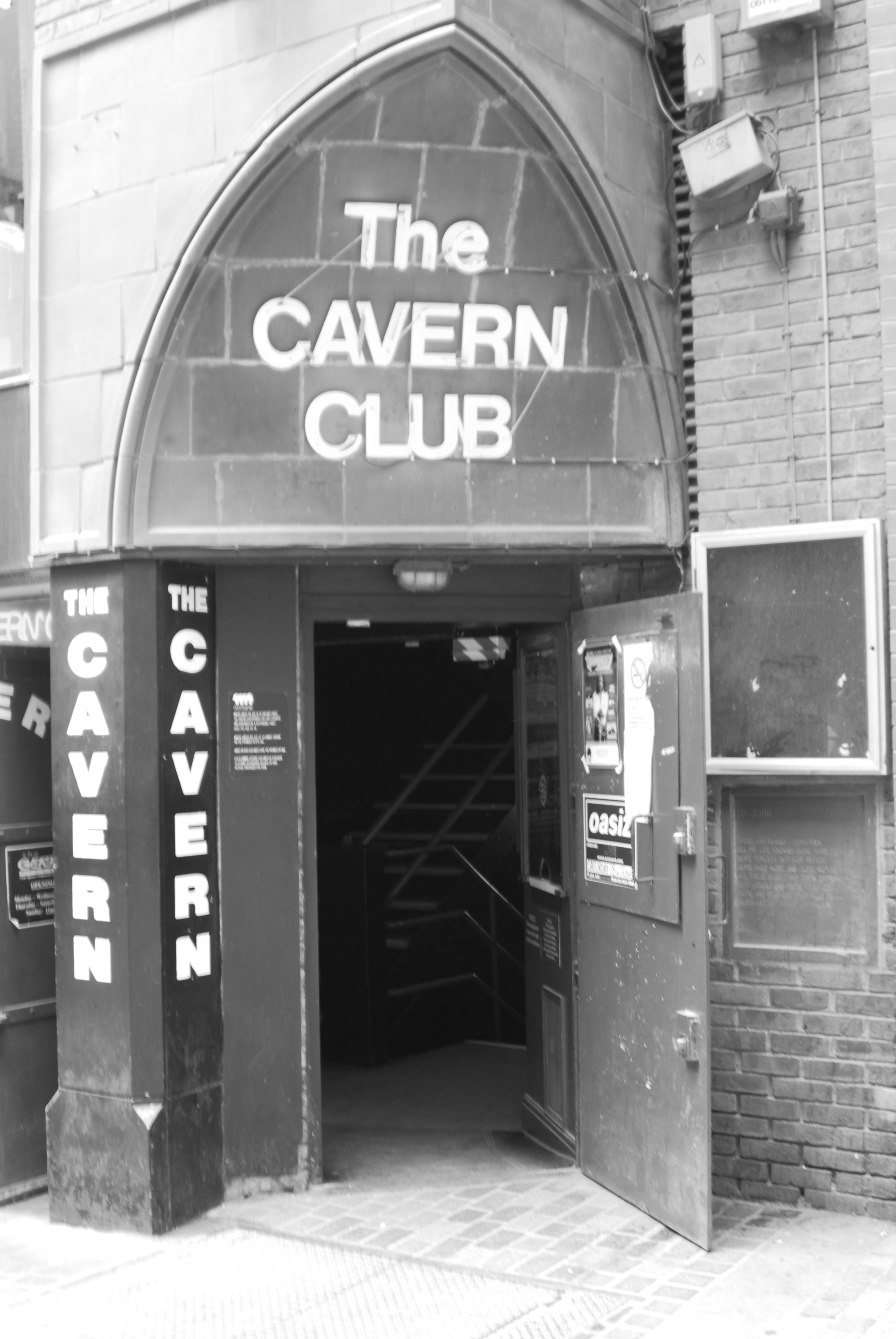 The Cavern Club is a rock and roll club at 10 Mathew Street, Liverpool, England, where Brian Epstein was introduced to the Beatles on 9 November 1961. The club opened on January 16, 1957. From